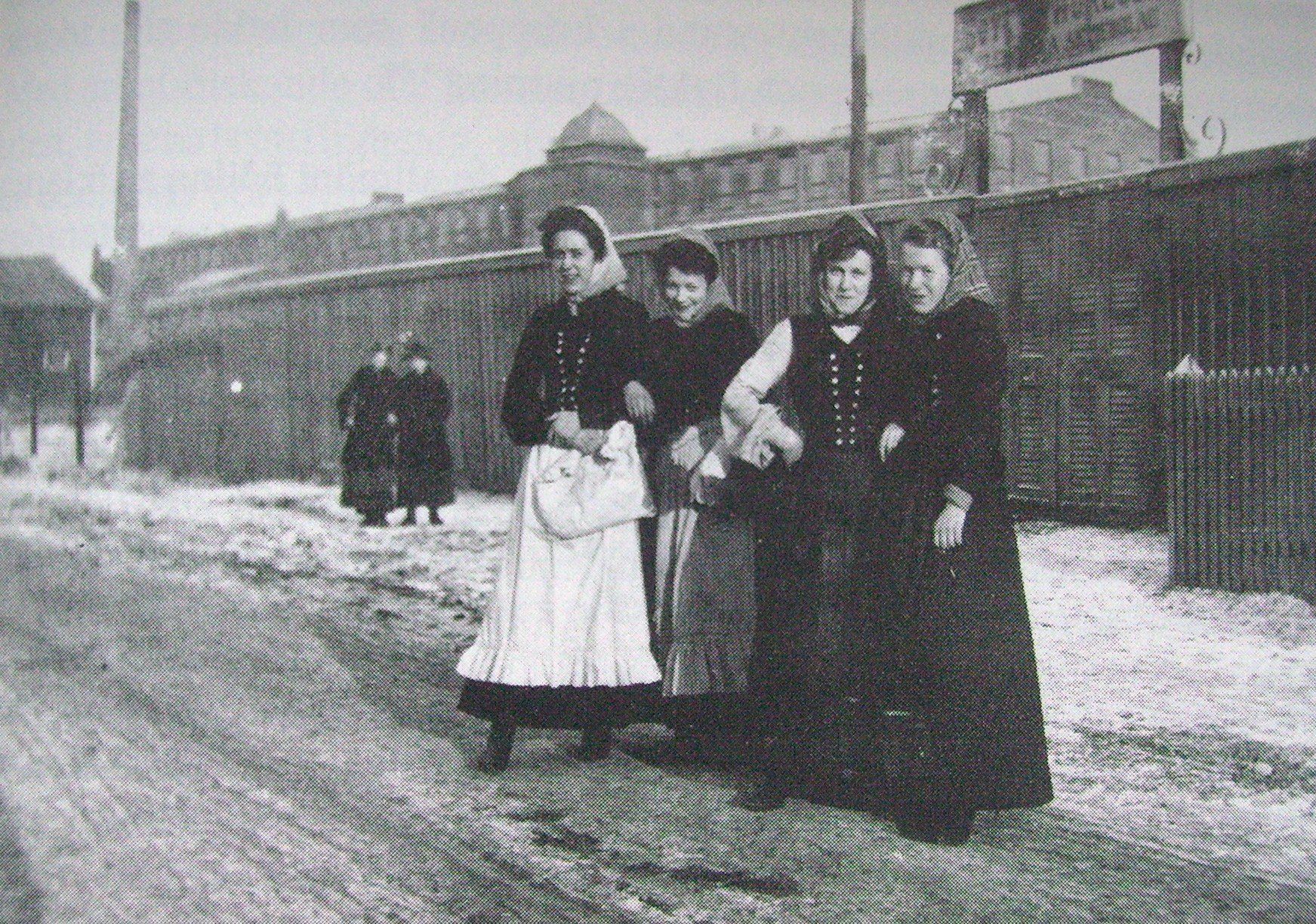 Picture from Gårda in Göteborg